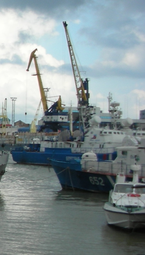 Fishing Port Novorossiysk. There is one project 1400 "Grif" (#652) (NATO:"Zhuk-class") PC in the foreground and two project 133 "Antares" border guard ships can be seen in the back.